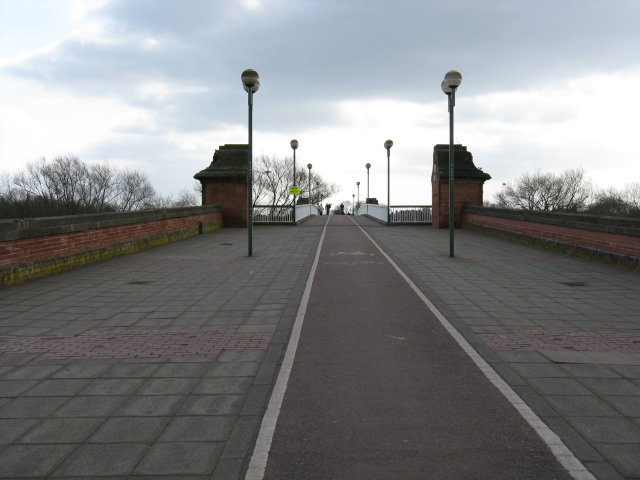 Toll Bridge Slope, Nottingham